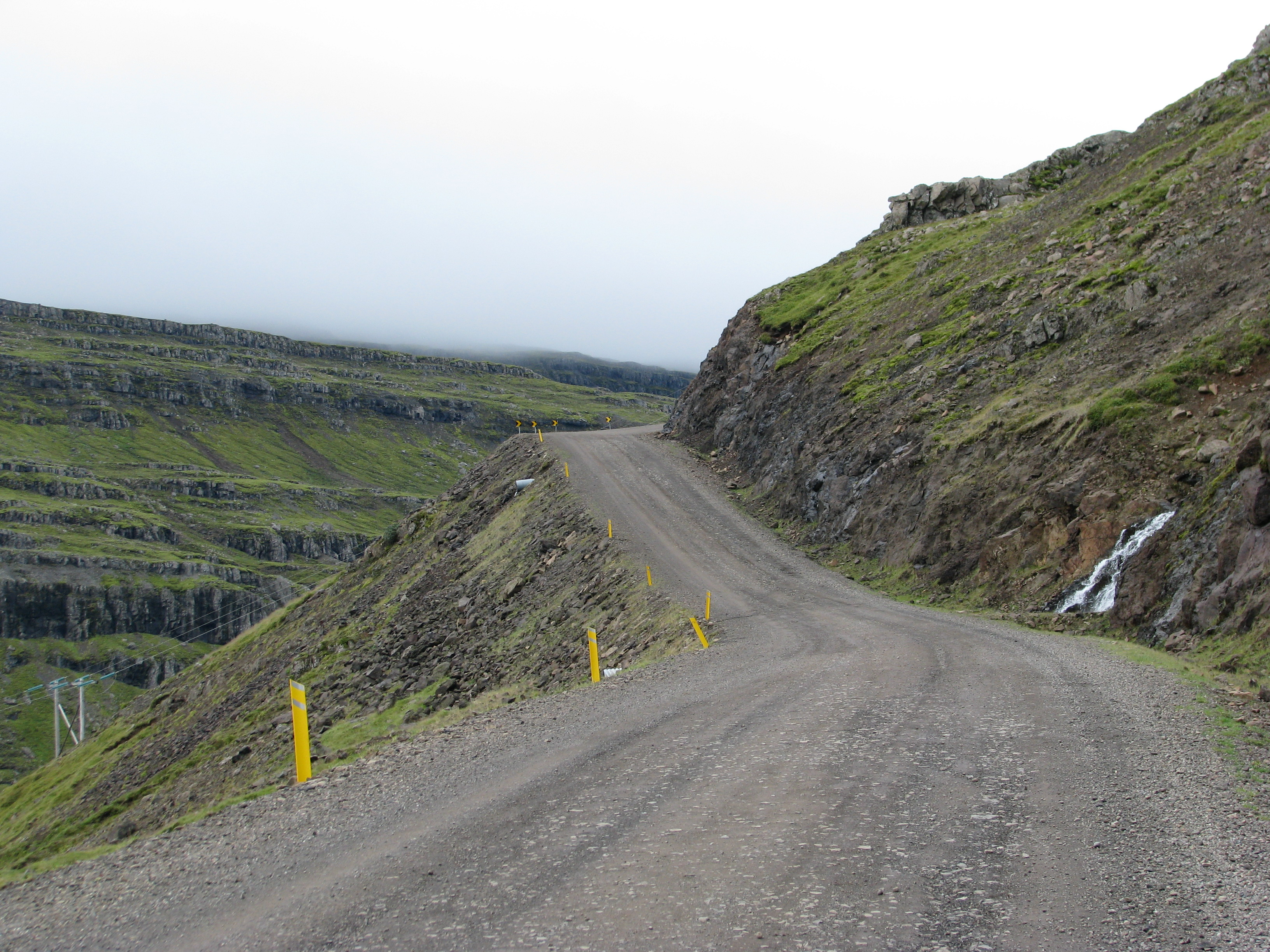 Mountain pass, Iceland